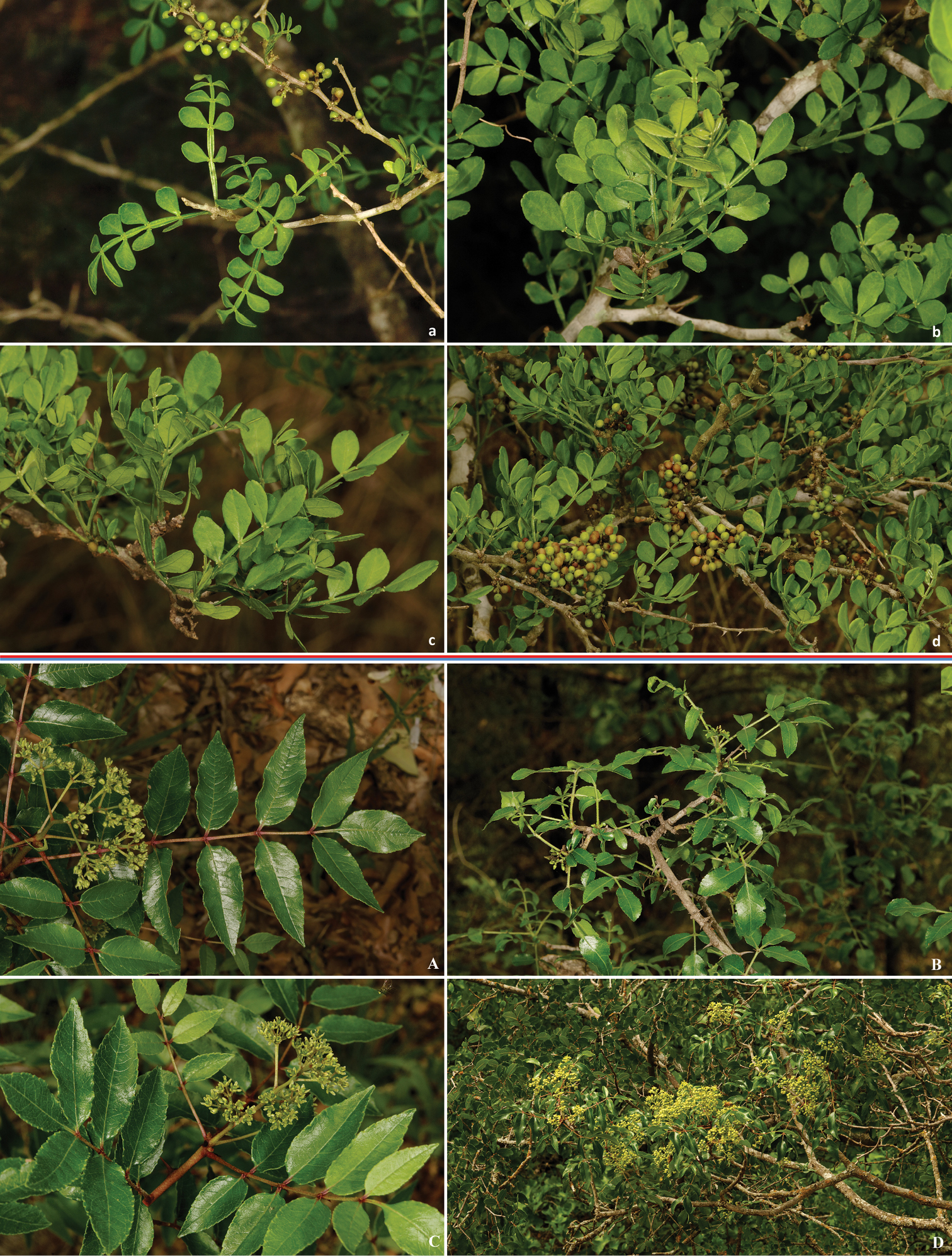 Foodplants most commonly used by Heraclides caterpillars. a–c Zanthoxylum fagara [L.] Sarg (Colima, Lime Prickly-ash), USA: TX: Duval Co., Benavides, 19-Apr-2014, used by H. rumiko A–C Zanthoxylum clava-herculis L. (Hercules’s club, Pepperwood), USA: TX: Denton Co., Grapevine Lake, Murrell Park, 26-Apr-2014, used by H. cresphontes.